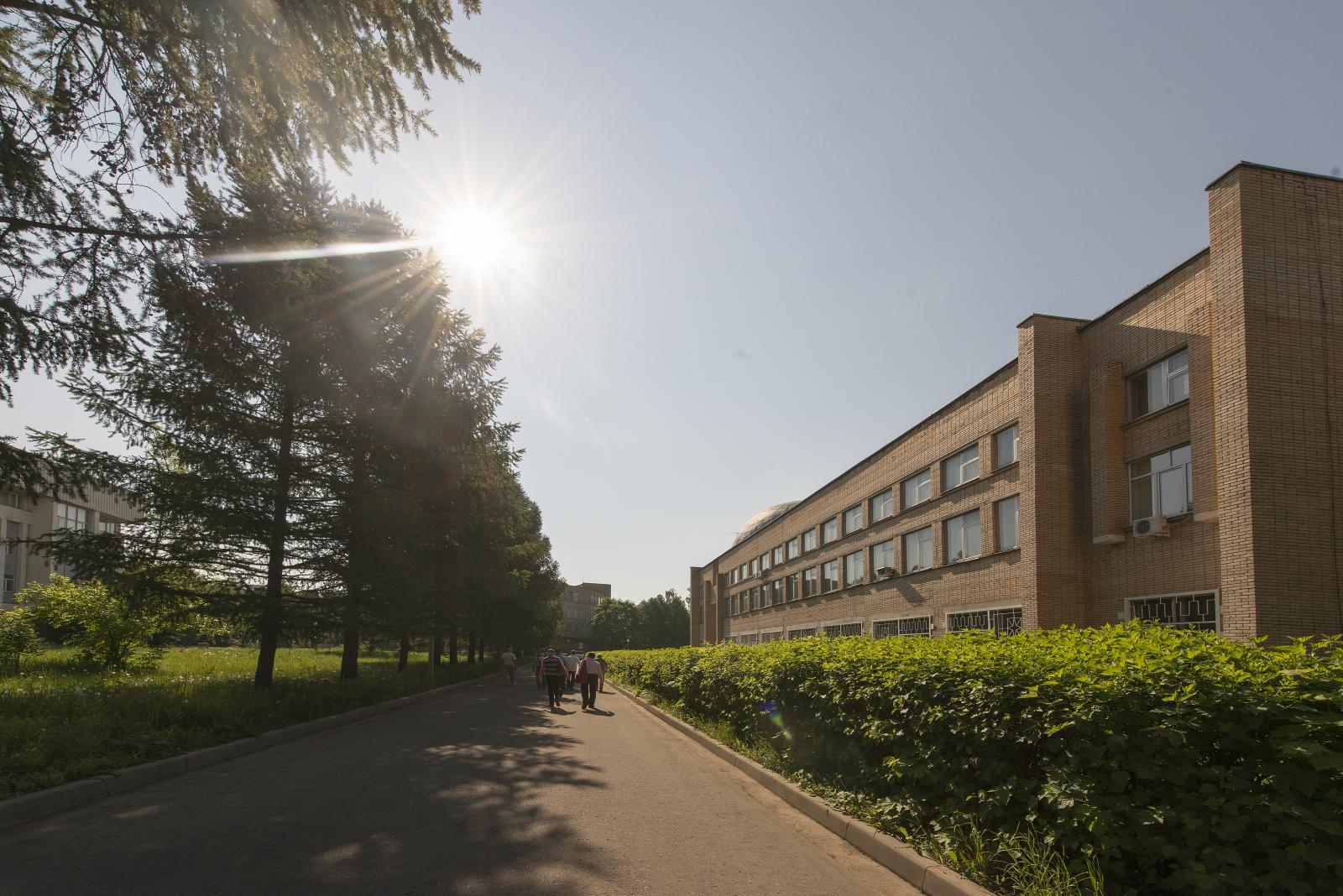 Yuri Gagarin Cosmonauts Training Center